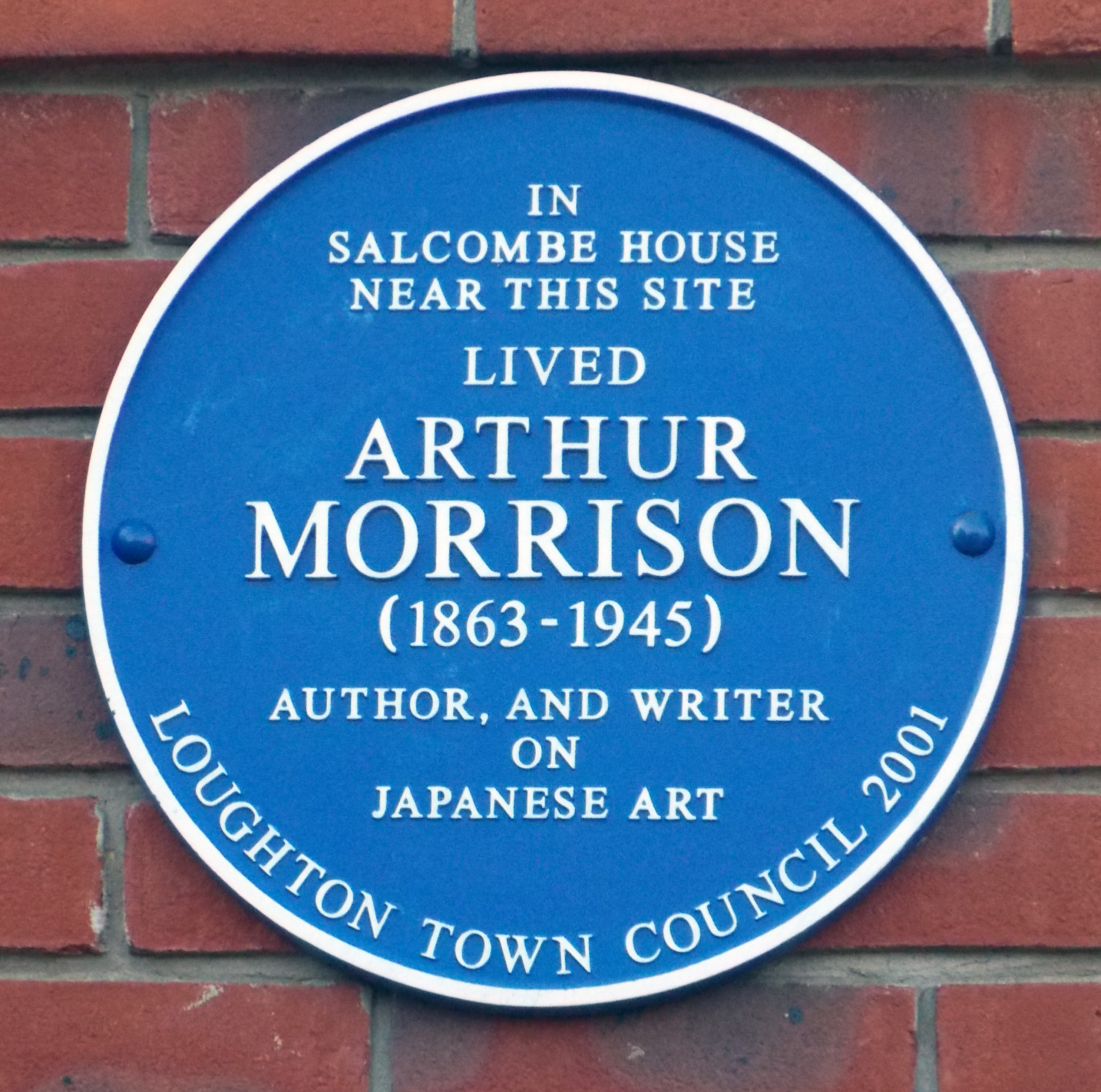 Arthur Morrison (1863-1945) blue plaque, 70 High Road, Loughton, Essex, England. Morrison lived at nearby Salcombe House.